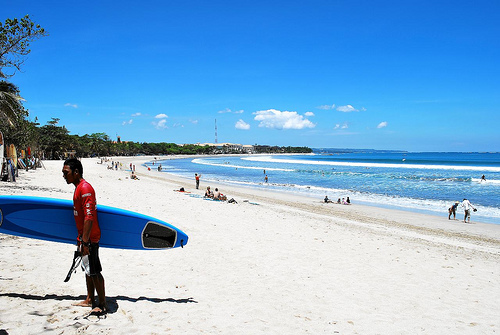 Kuta Beach, Location: Bali, Indonesia.